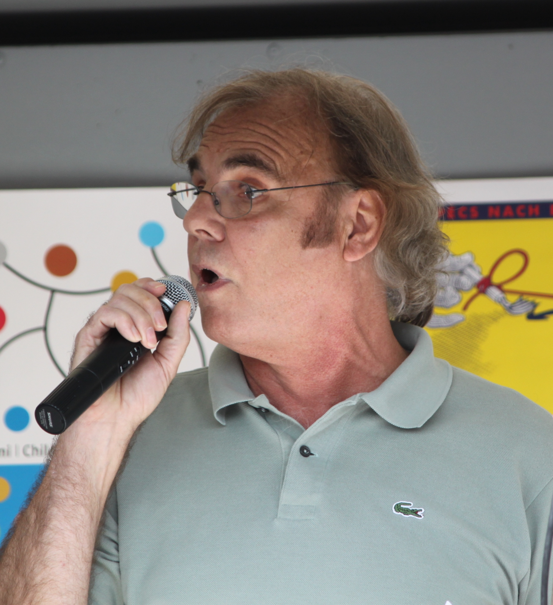 Jürgen Triebel, german radio presenter during performance of the currywurst-song on the motorway A40 in Essen / Germany